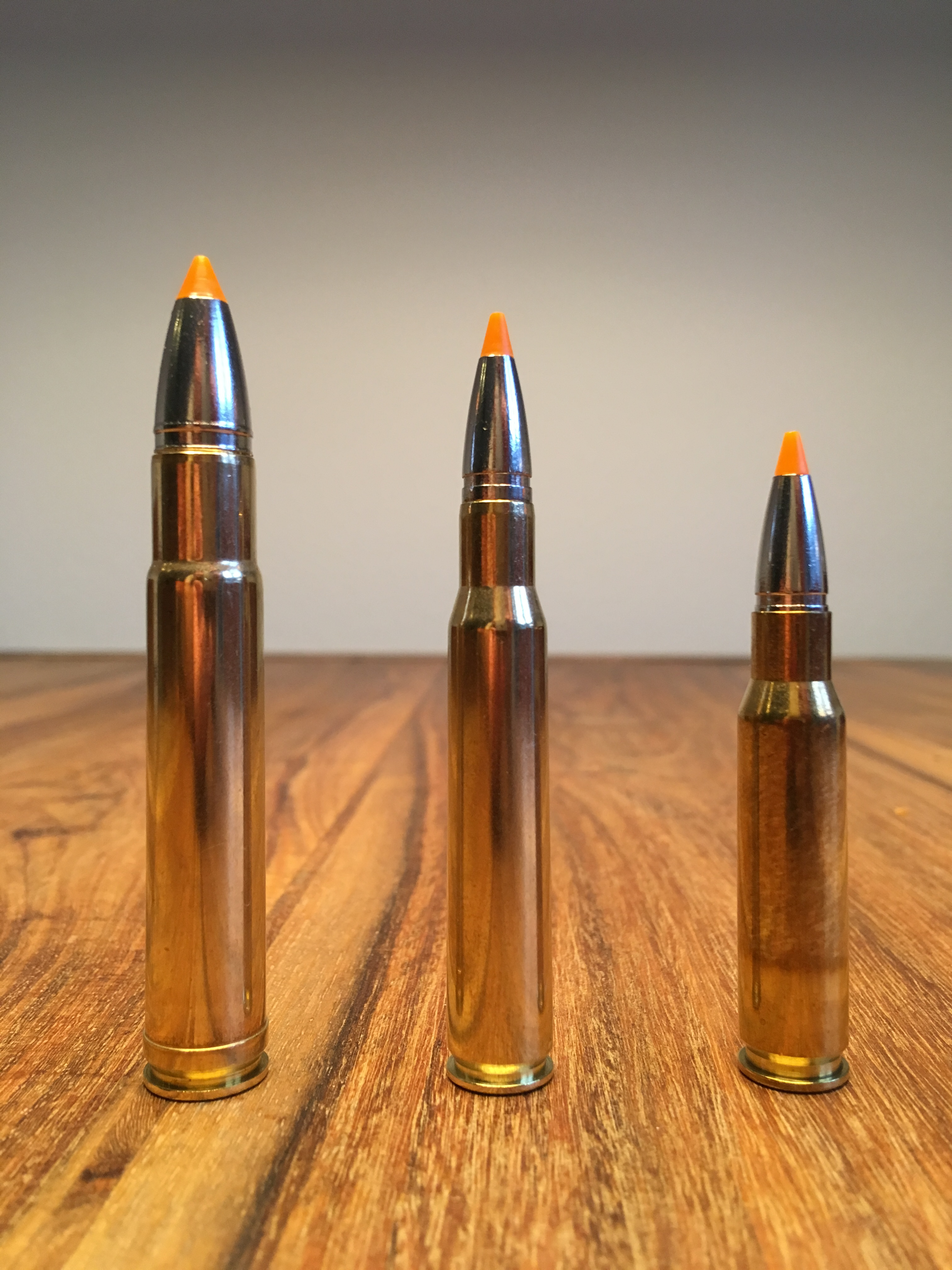 10,3x68 Magnum, 30-06 Springfield, .308 win. (left to right)